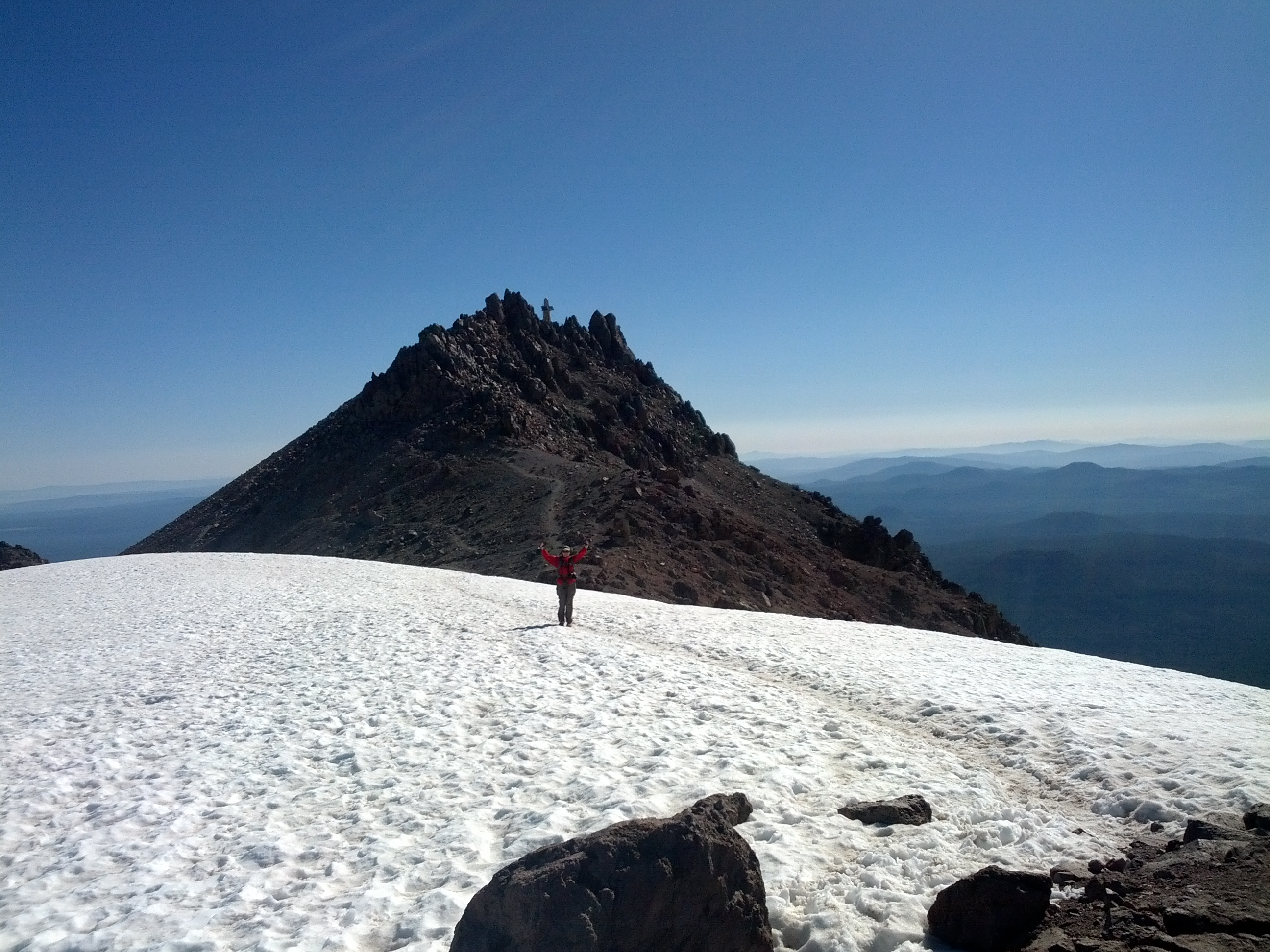 My mother made it too the top of Lassen Peak